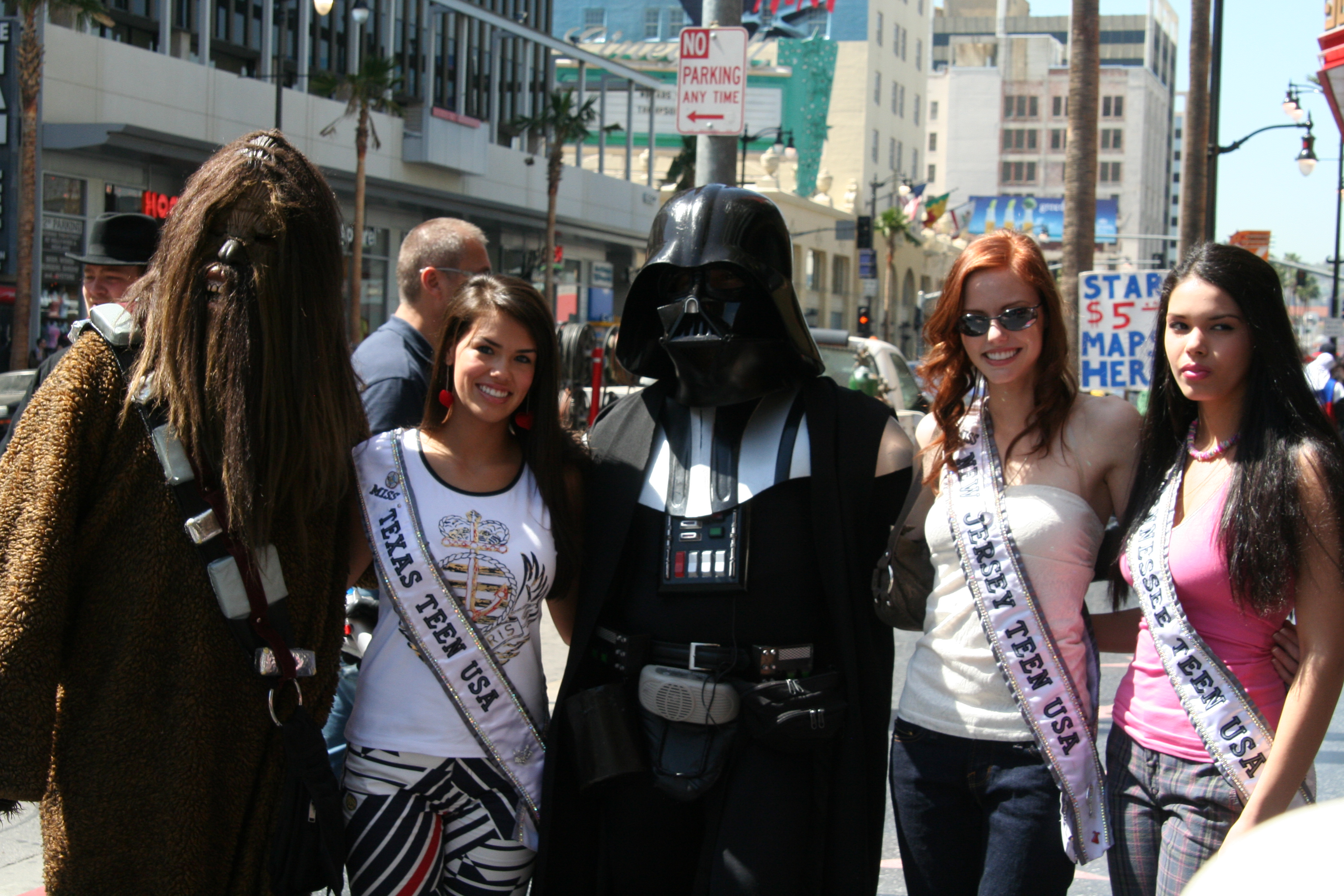 Miss Teen USA 2007 delegates, in Los Angeles to watch the Miss USA 2007 pageant, make an appearance at Hollywood & Highland.